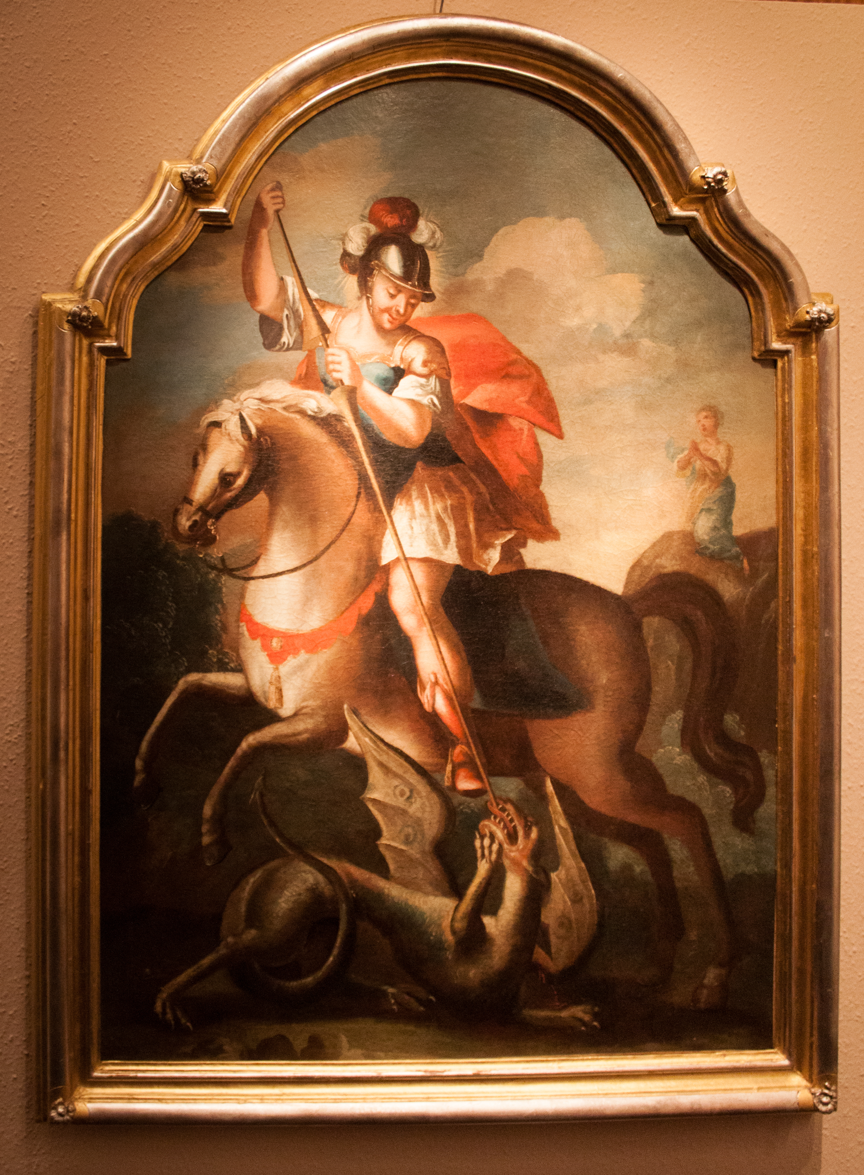 Central altar piece of the of the Baroque three-storey altar in Subotica (Szabadka) Franciscan Church